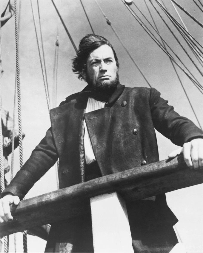 Gregory Peck publicity photo for the film Moby Dick, 1956